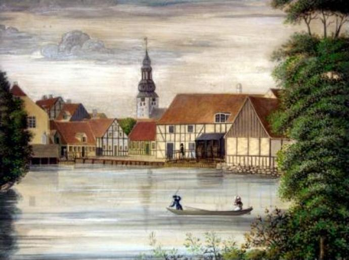 Painting by the wine merchant "Bock" of the old mill in Aalborg, Denmark, now in the Aalborg Historiske Museum. The water in the mill pond is from the Østerå.